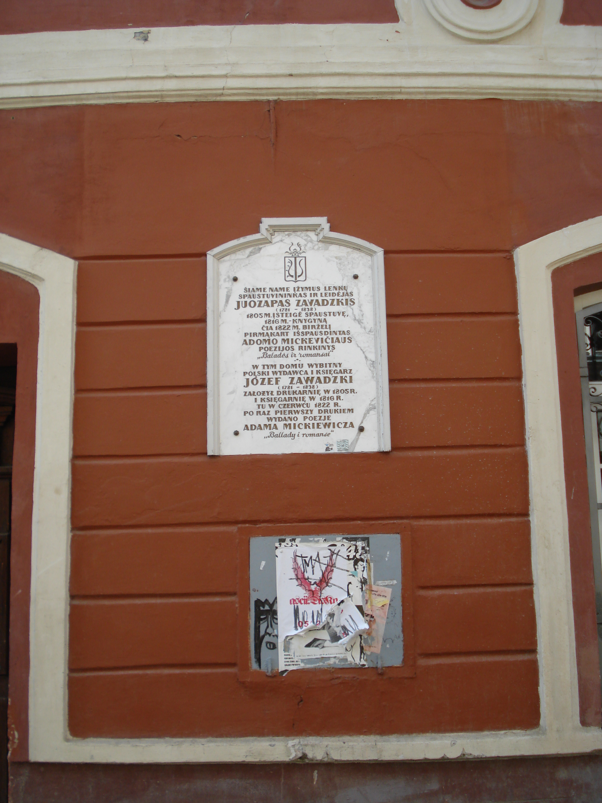 memorial tablet in honour of university printer Jozef Zawadski in Vilnius (Jono g. 4)